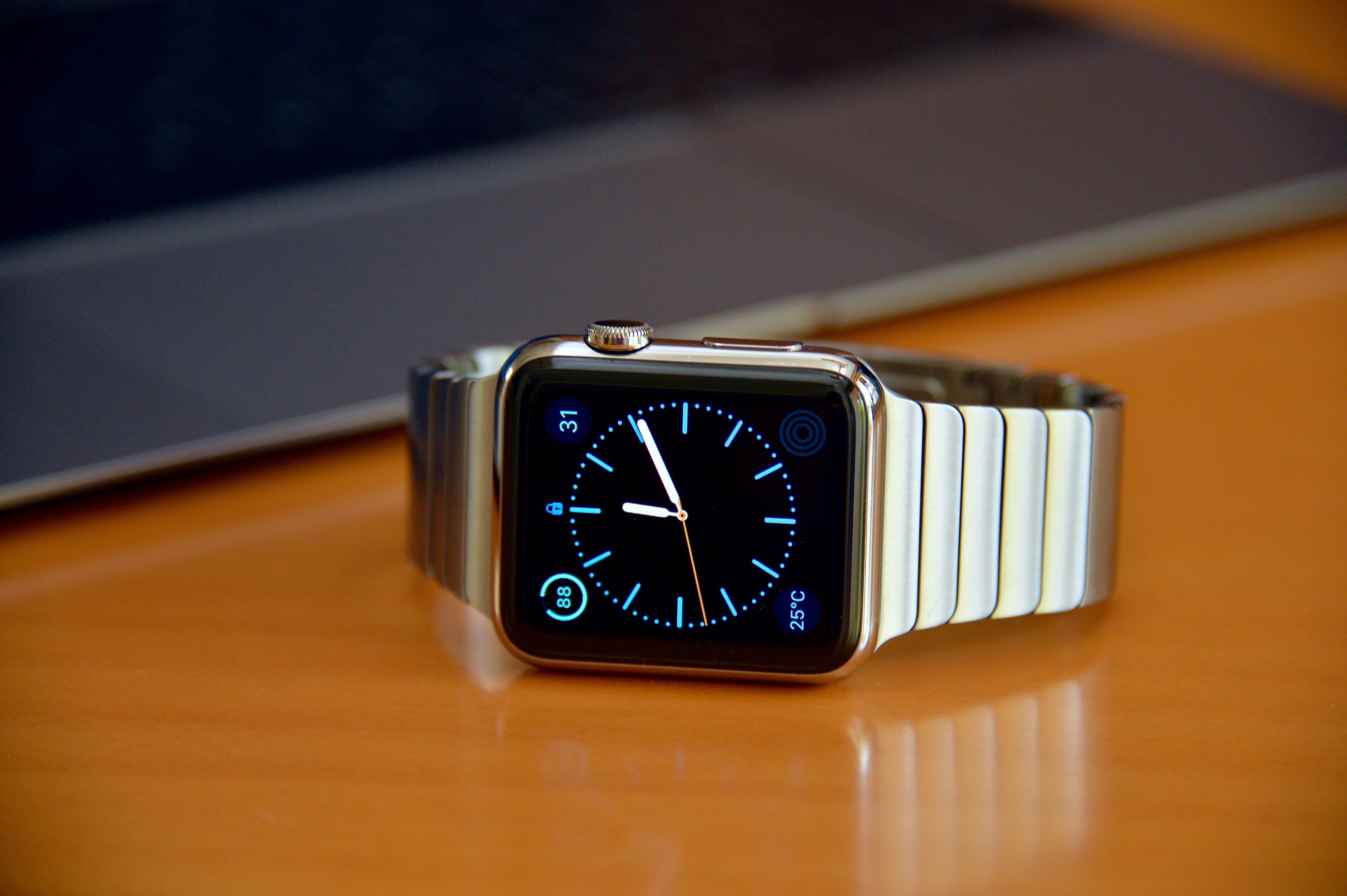 Apple Watch